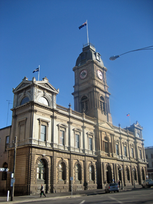 Ballarat Town Hall Sturt Street Ballarat Victoria Australia